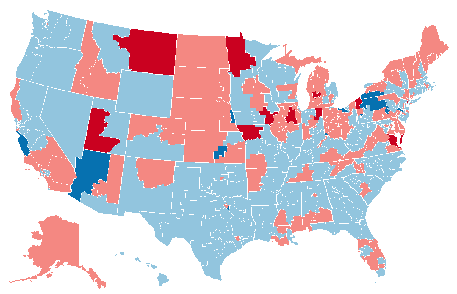 This maps shows who won the House Elections of 1976.